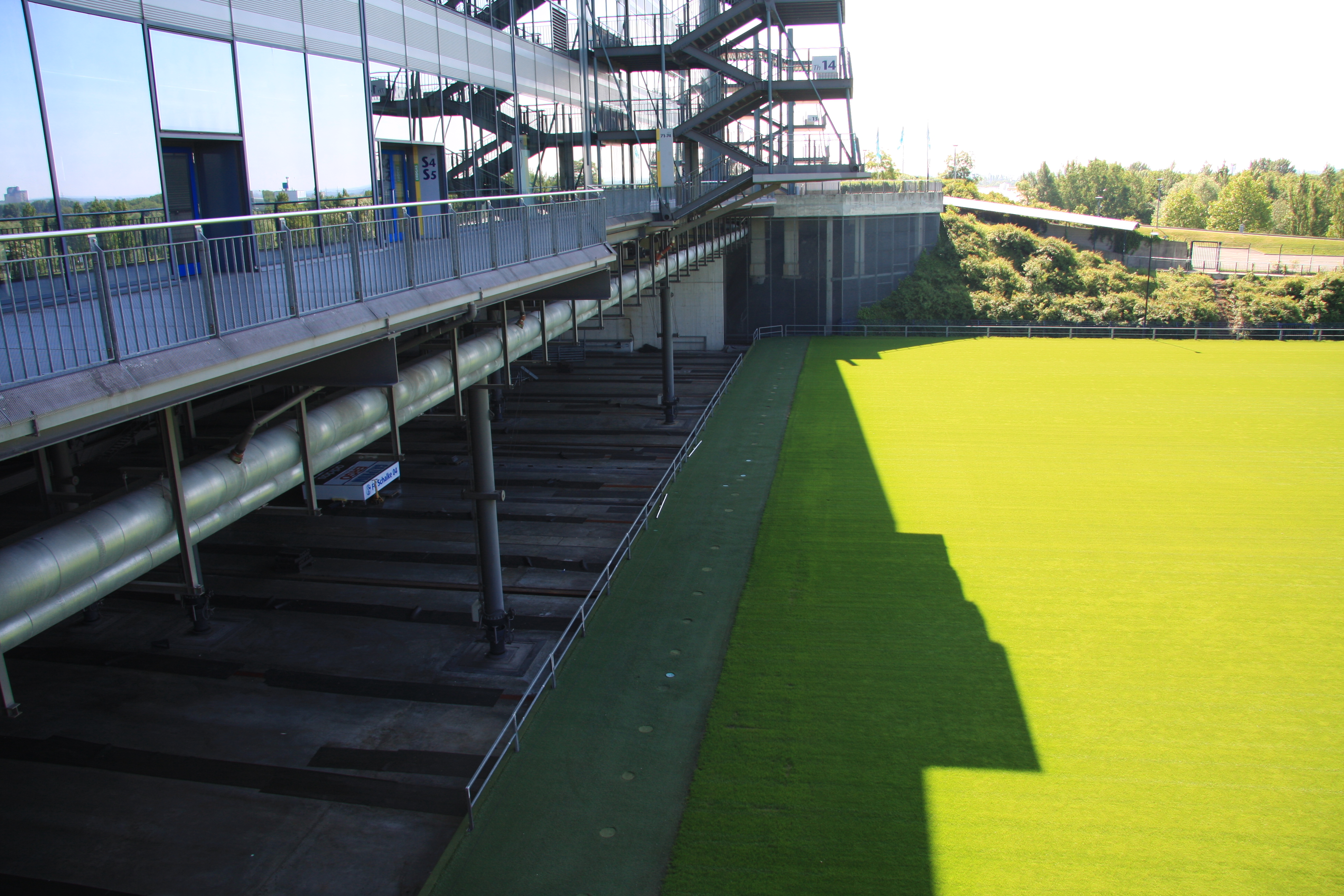 Arena AufSchalke, the slide out pitch outside the stadium unterneath the southern block